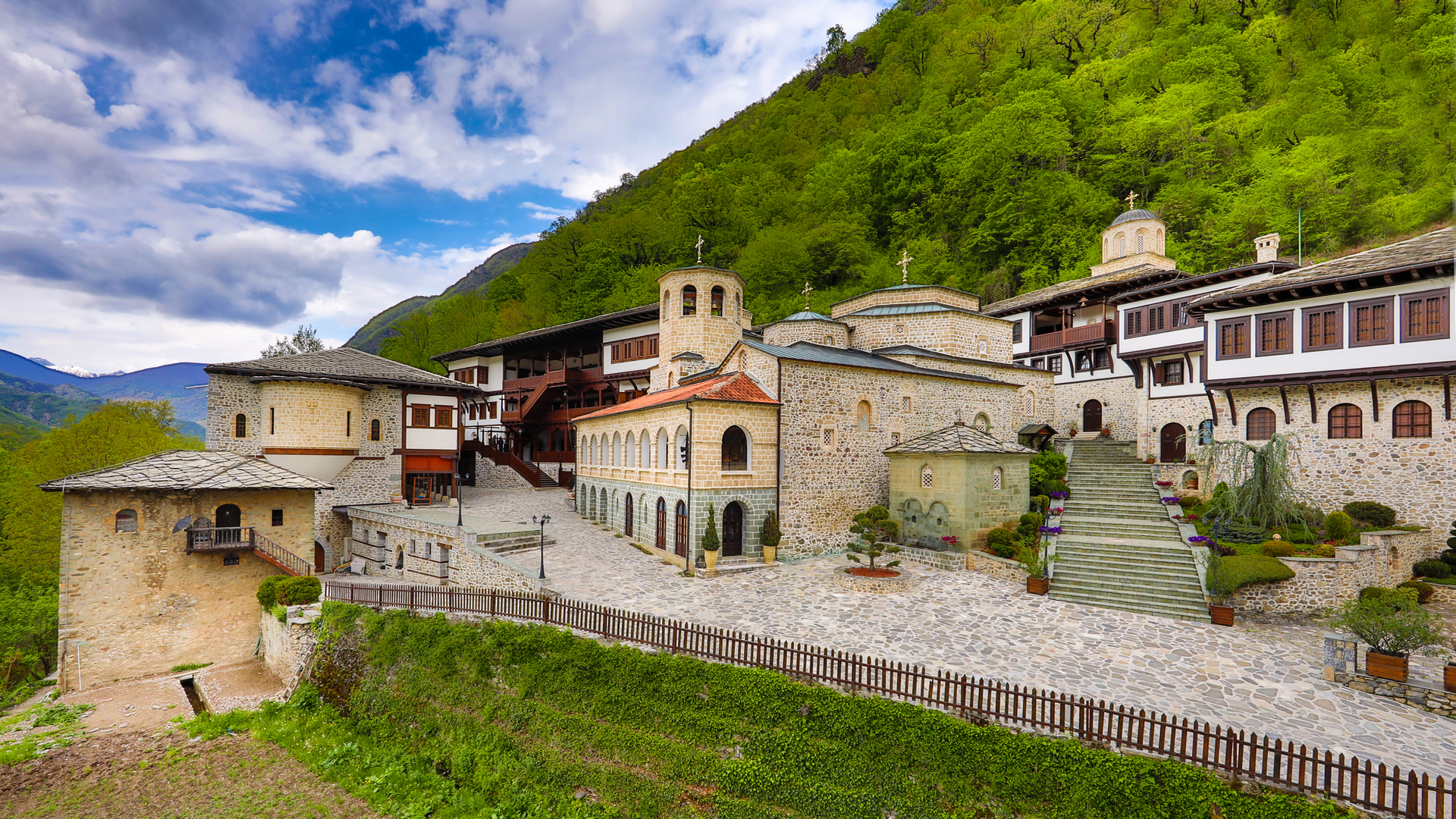 Panorama of Bigorski Monastery